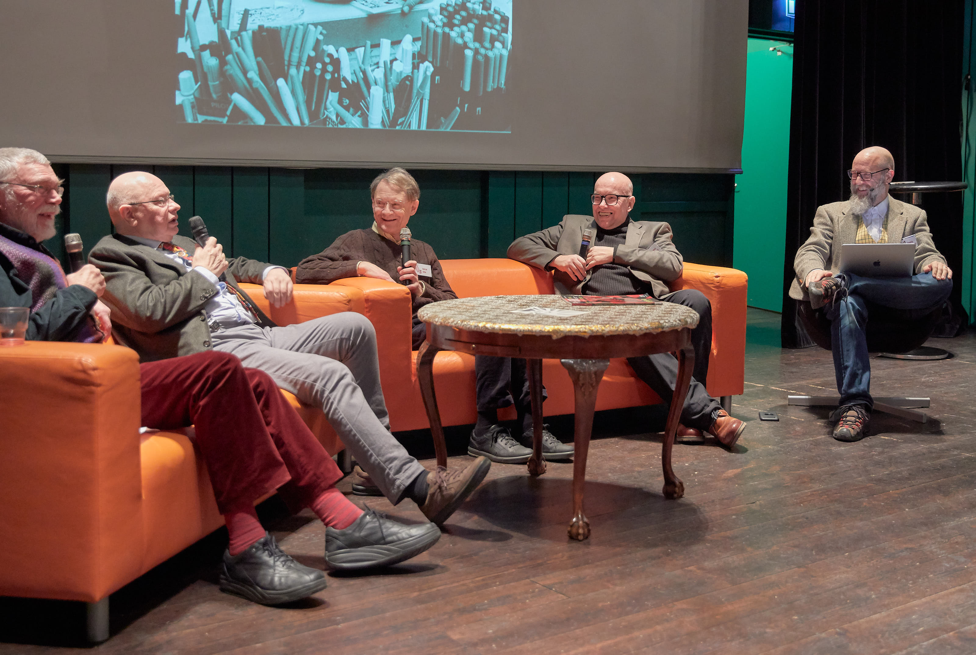 A panel talk at the 50 years anniversary celebration of Seriefrämjandet, the Swedish Comics Association, at Dieselverkstaden in Nacka. Participants from left to right: Janne Lundström, Magnus Knutsson, Göran Ribe, Thomas Karlsson, Fredrik Strömberg.